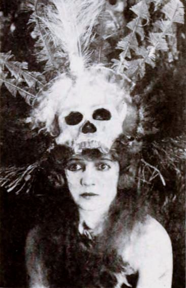 Still from the American film serial The Diamond Queen (1921) with Eileen Sedgwick, on page 67 of the October 23, 1920 Exhibitors Herald.